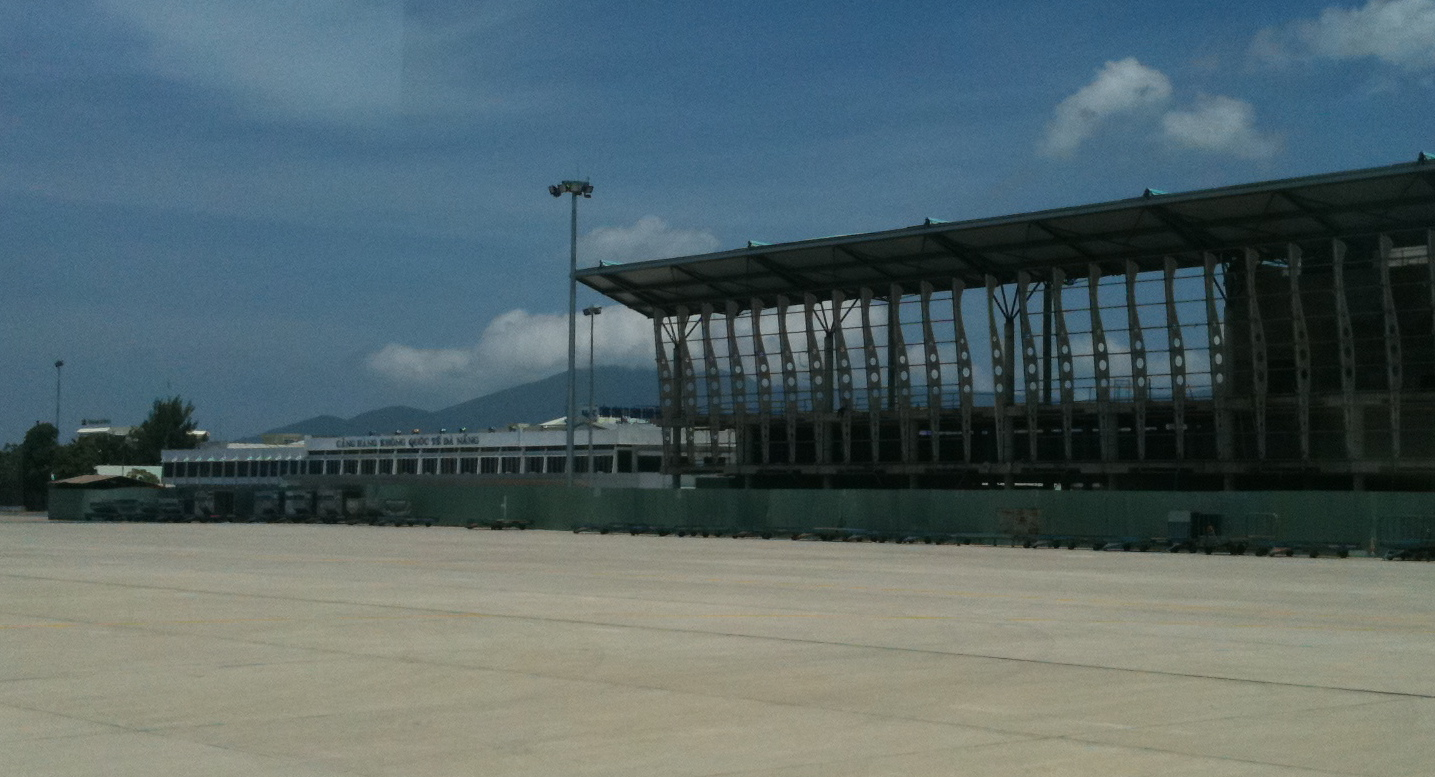 A view of Da Nang International Airport, taken from the tarmac. To the left is the original terminal; to the right is the new international terminal, still under construction. An alternate view of File:Da Nang Int'l Airport from tarmac.JPG, cropped for focus.